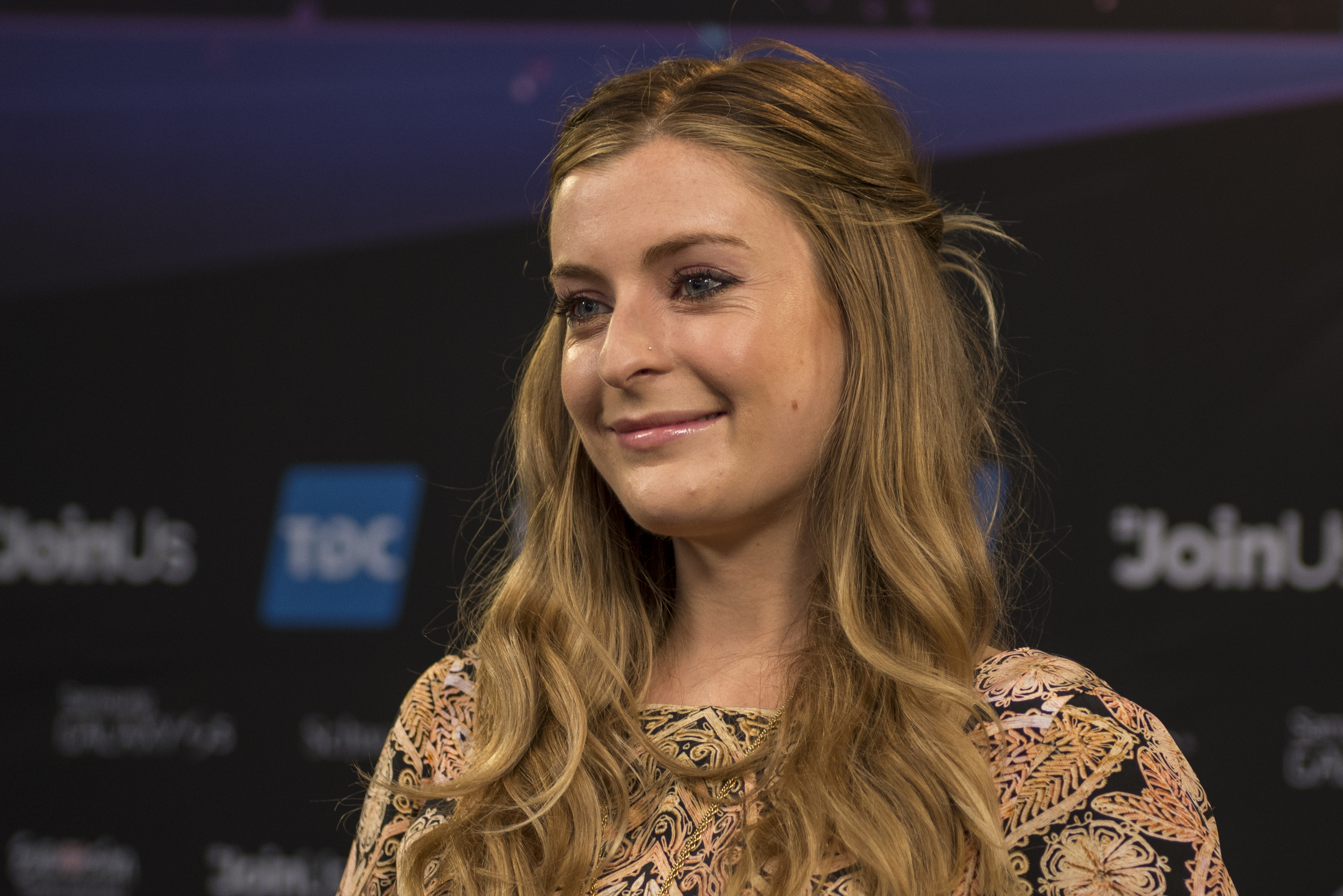 Molly Smitten-Downes at a press conference during the Eurovision Song Contest 2014 Copenhagen. (Help translate this text)